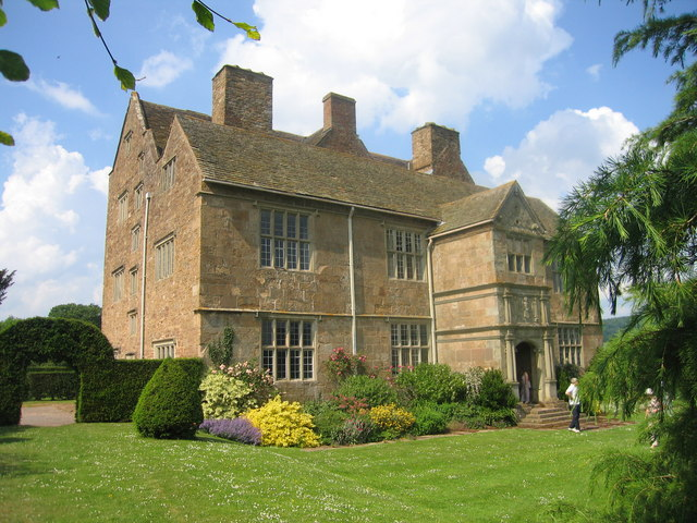 Treowen House This beautiful and historic house can now be hired as a place for weddings and special events, family reunions etc.